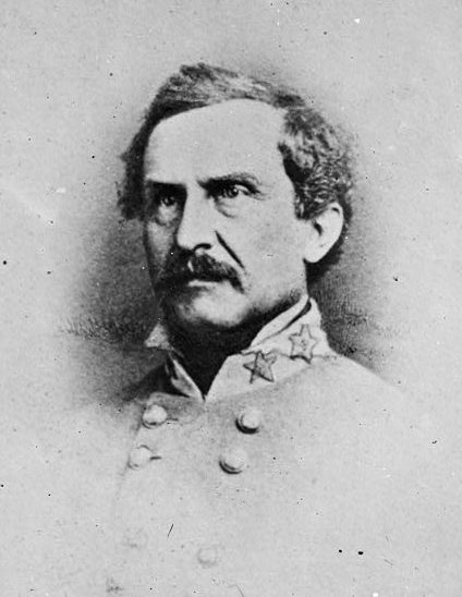 Title: William Mackall, Chief of Staff [...] C.S.A. Physical description: 1 negative